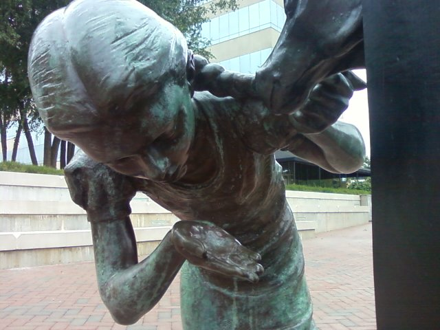 Young girl statue next to a rain spout in Asheville, North Carolina. The statue was designed to make it look like she is feeding a horse.